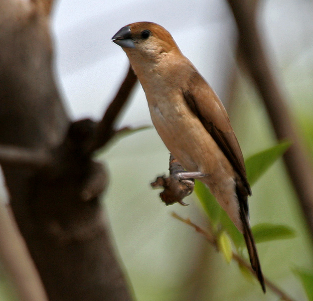 Indian Silverbill or White-throated Munia Lonchura malabarica at Deer Park in Shamirpet, Rangareddy district, Andhra Pradesh, India.